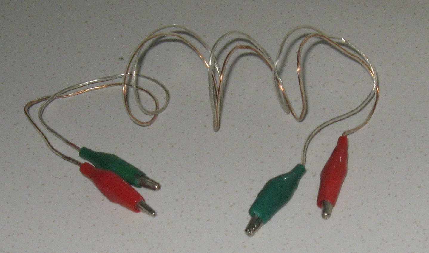 Test leads with alligator clips.